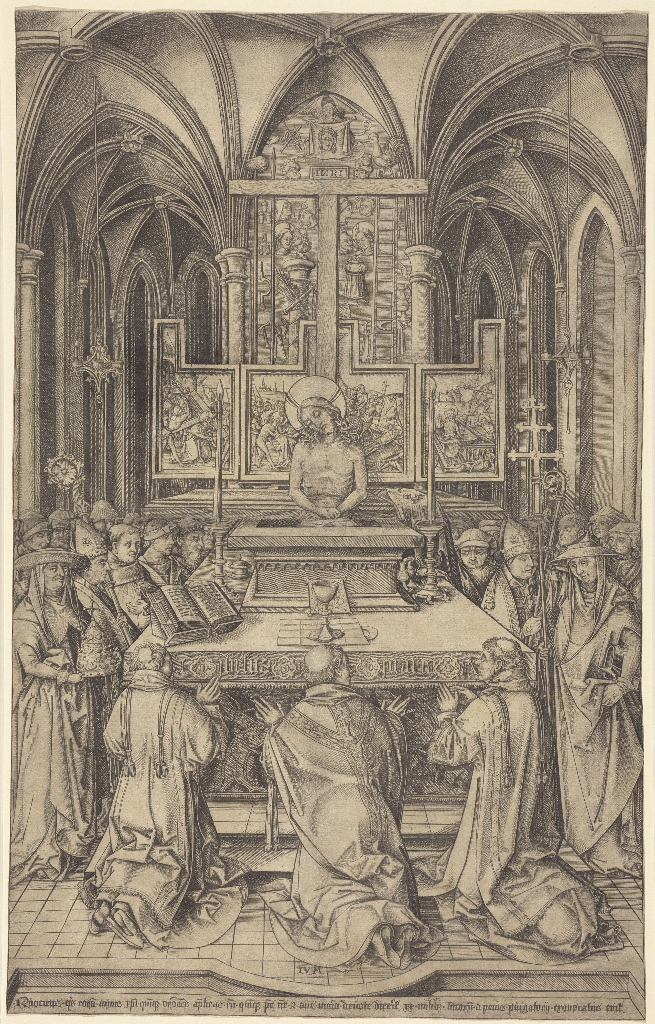 The Mass of Saint Gregory. Engraving by Israhel van Meckenem of the Mass of Saint Gregory, 1490s, with, at the bottom, an unauthorized indulgence of 20,000 years each time specified prayers were said in the presence of the print.